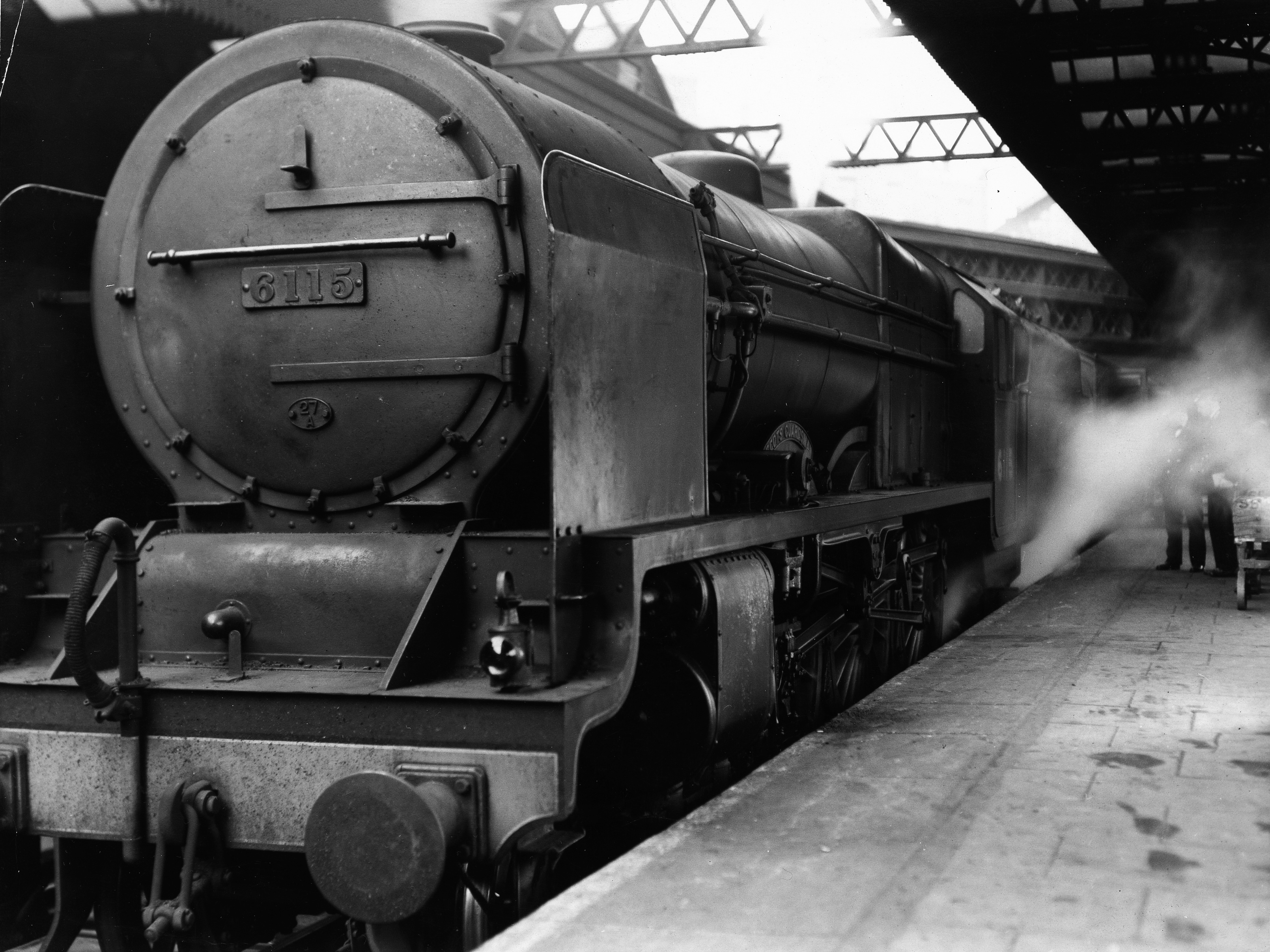 Image of train 6115 in station from the documentary film Night Mail by the GPO Film Unit